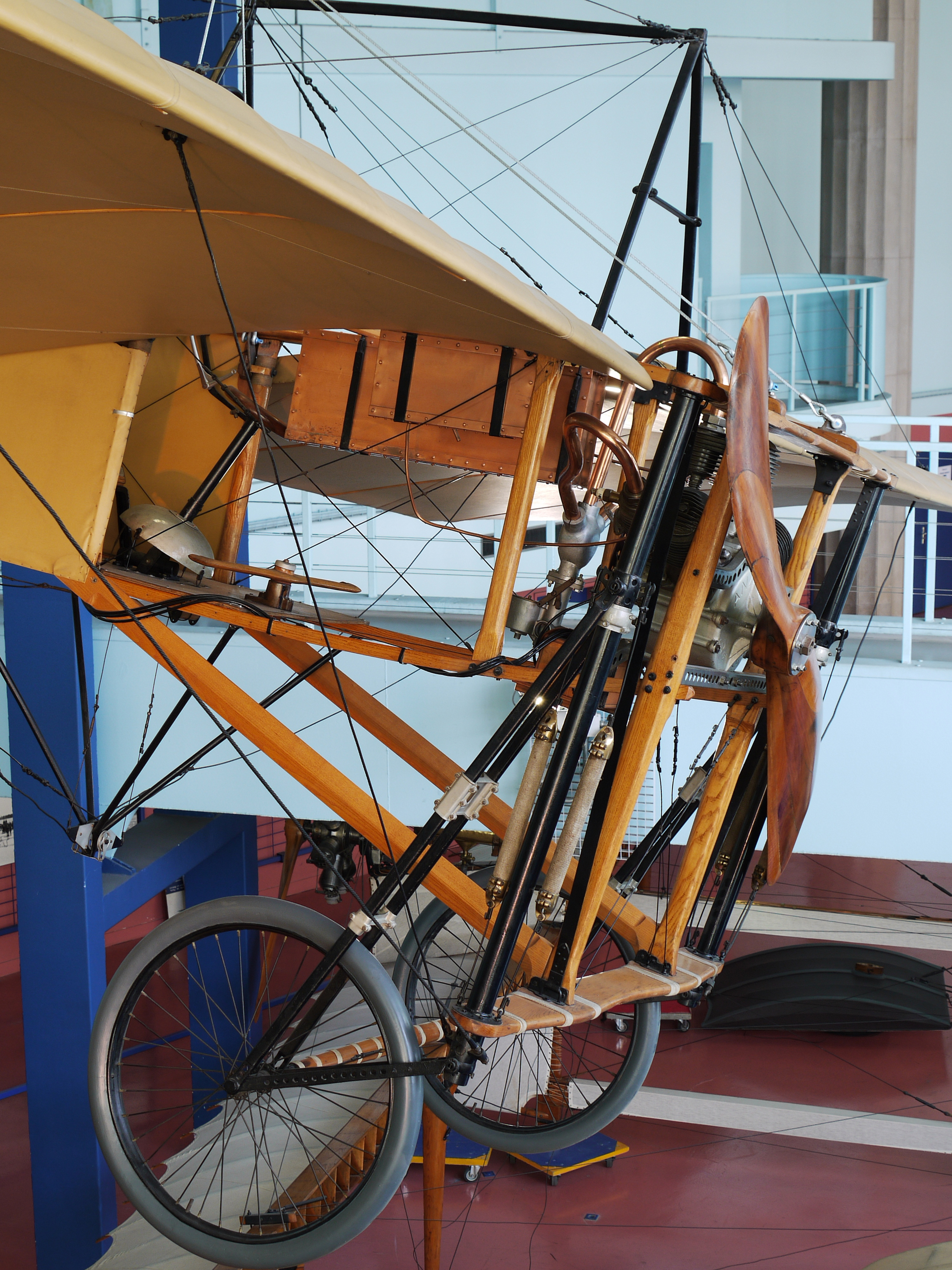 Blériot XI with Anzani engine, Museum of Air and Space Paris, Le Bourget (France)